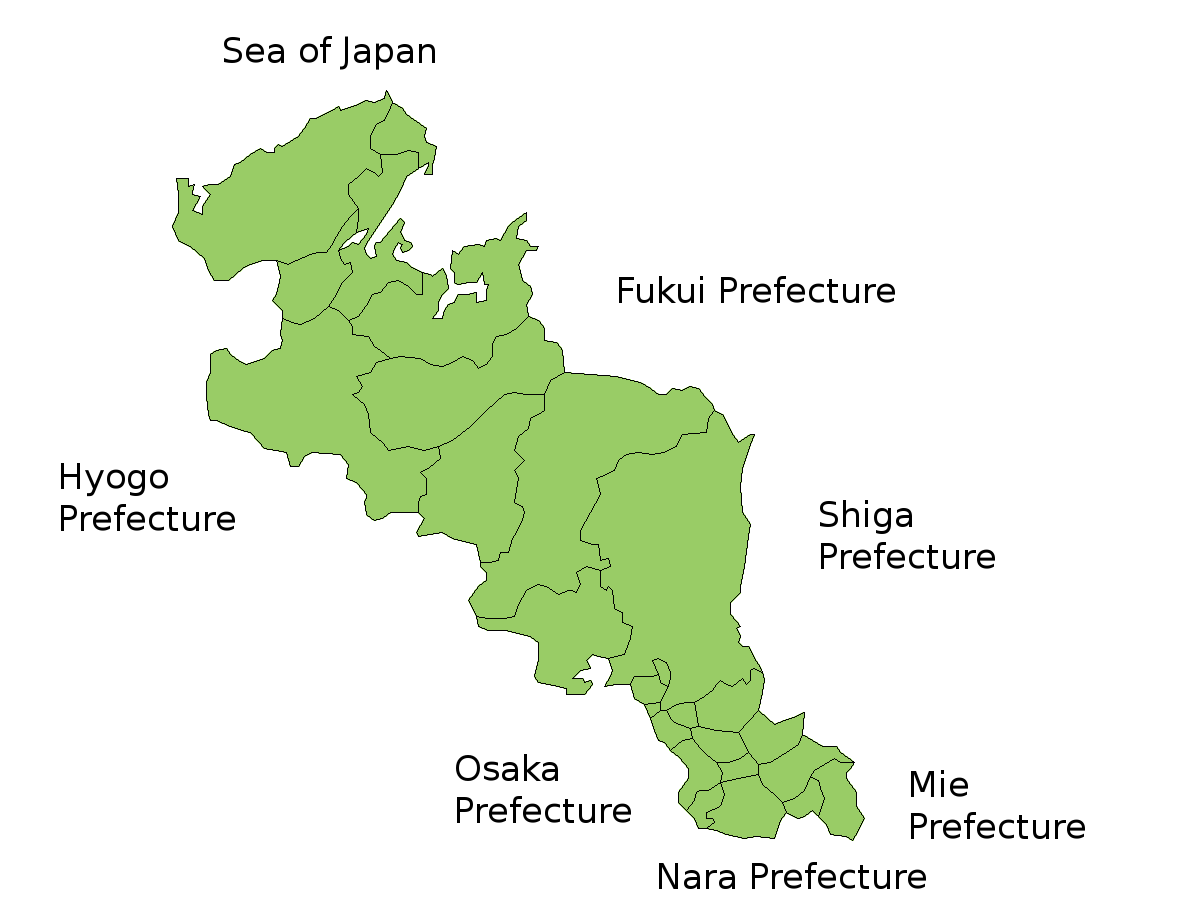 Map of Kyoto Prefecture, Japan. Thanks to Aoki Shigenobu and [1]. Colors from Image:TokyoMapCurrent.png by User:Fg2.